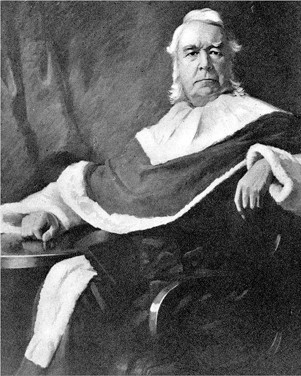 The Hon. John D. Armour, Chief Justice of the Supreme Court of the Dominion of Canada